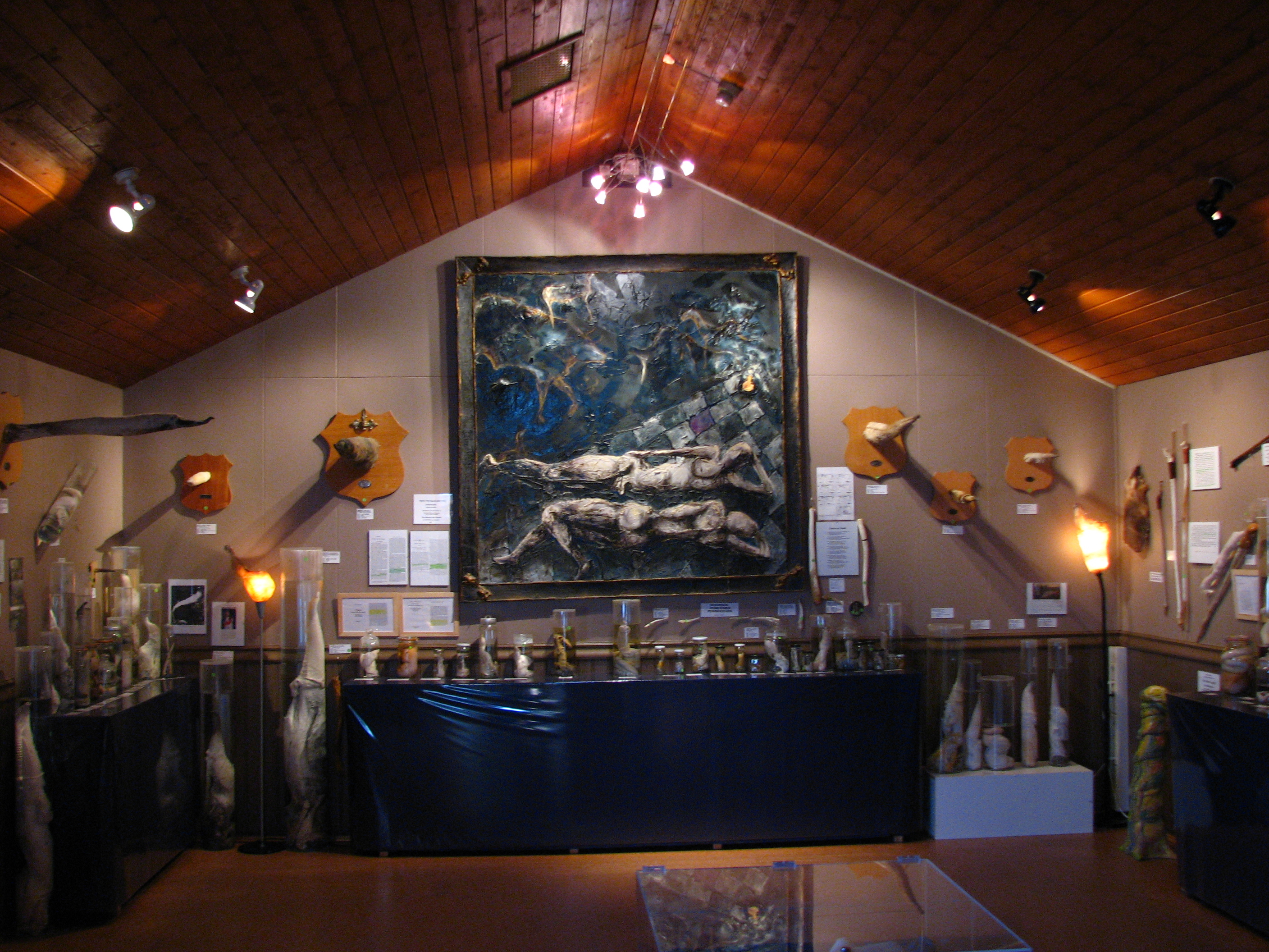 Icelandic Phallological Museum, Húsavík , penis, road trip, 2008-08 -- Iceland 1st Anniversary Trip